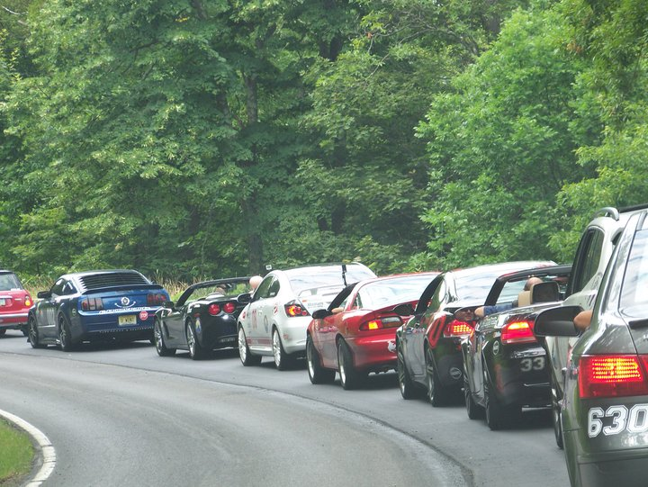 Rally Appalachia 2011 day 1